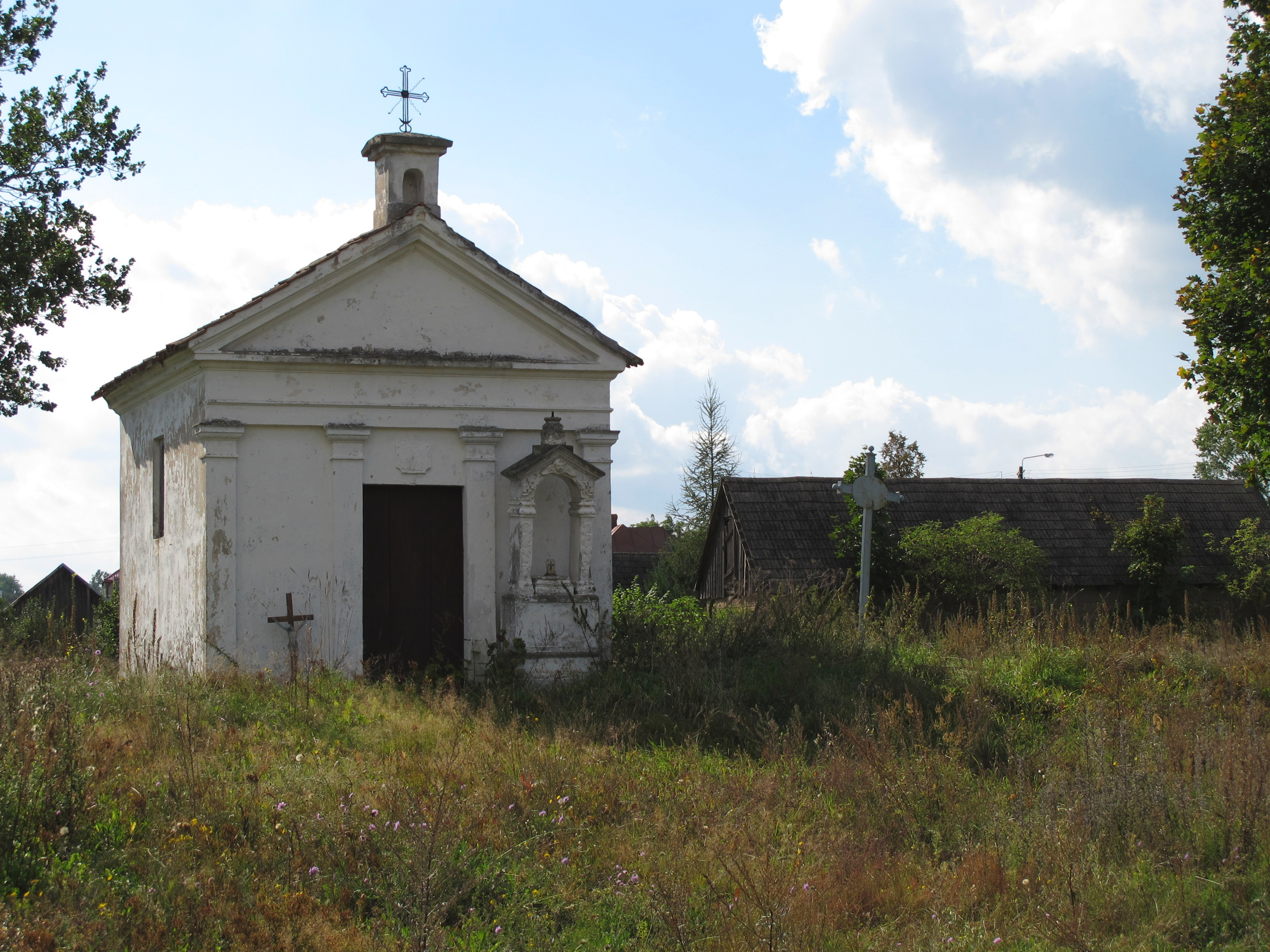 Saint Vincent cemetery chapel at uniate/orthodox cemetery in Narew, gmina Narew podlaskie, Poland